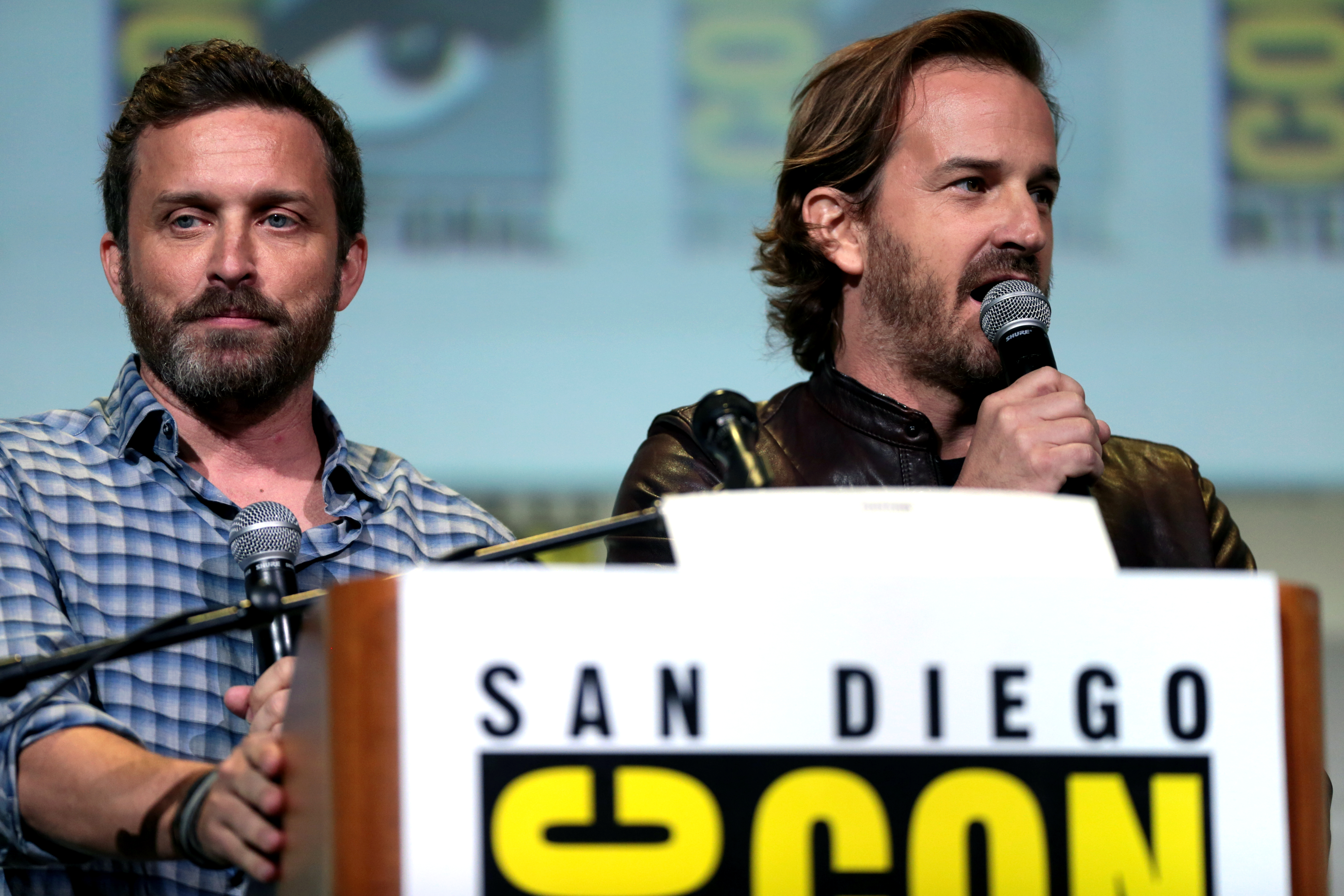 Rob Benedict and Richard Speight, Jr. speaking at the 2016 San Diego Comic Con International, for "Supernatural", at the San Diego Convention Center in San Diego, California.